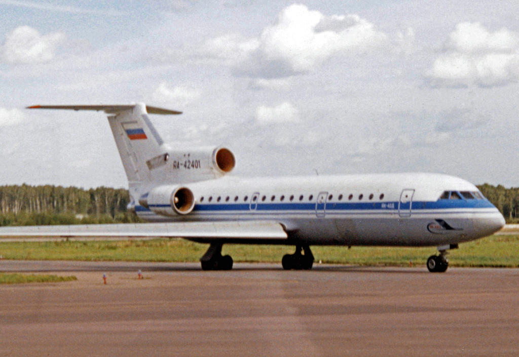 Yakovlev Yak-42D RA-42401 of Chelyabinsk Air Enterprise (Chelal) at Moscow Domodedovo Airport in 1994